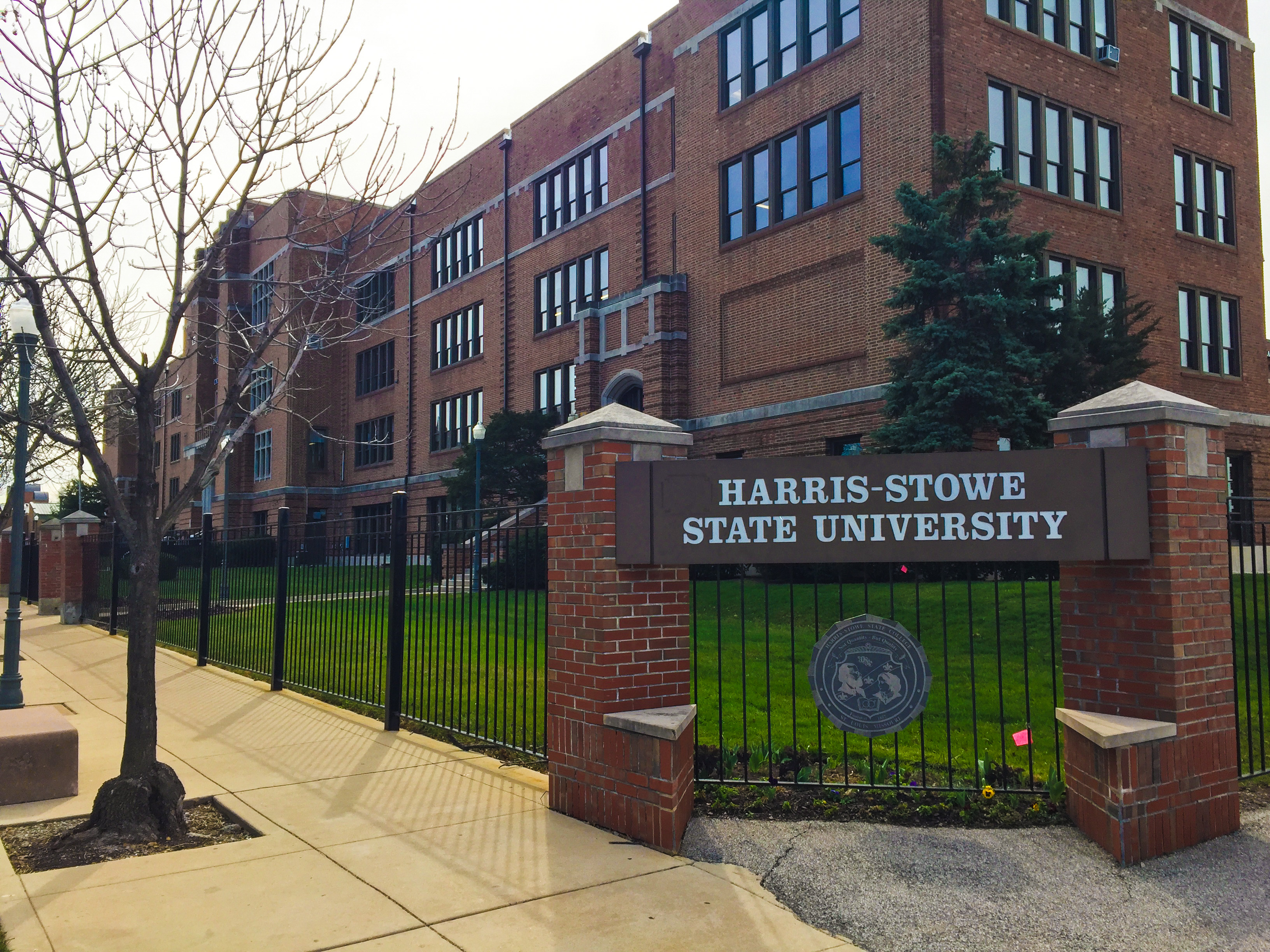 Harris-Stowe State University